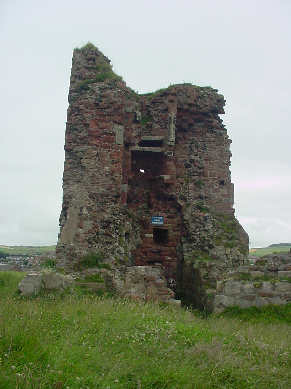 This is a photograph of Ardrossan Castle in Ayrshire, Scotland